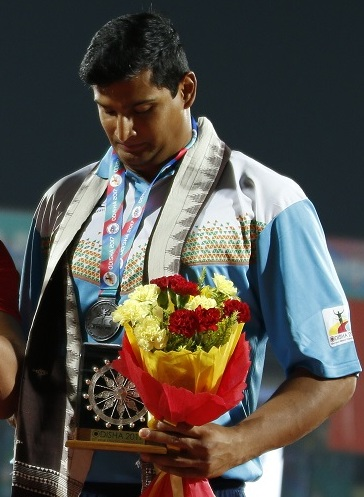 Athletes during 22nd Asian Athletics Championships in Bhubaneswar.